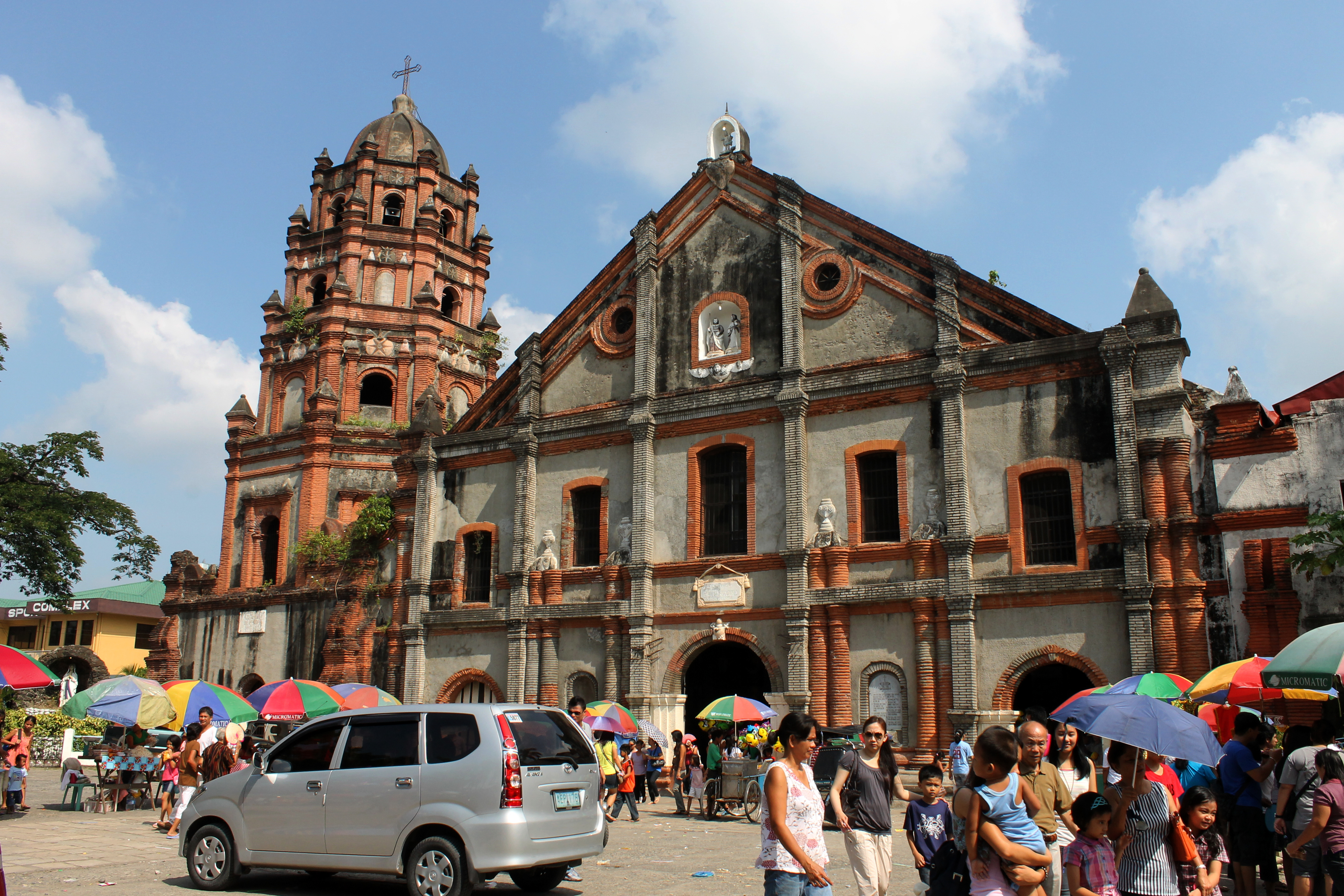 Closer view of the facade of the Calasiao, Pangasinan church